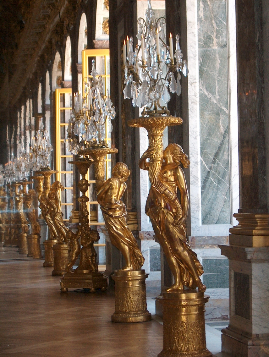 Picture taken inside Palace of Versailles in 2006.